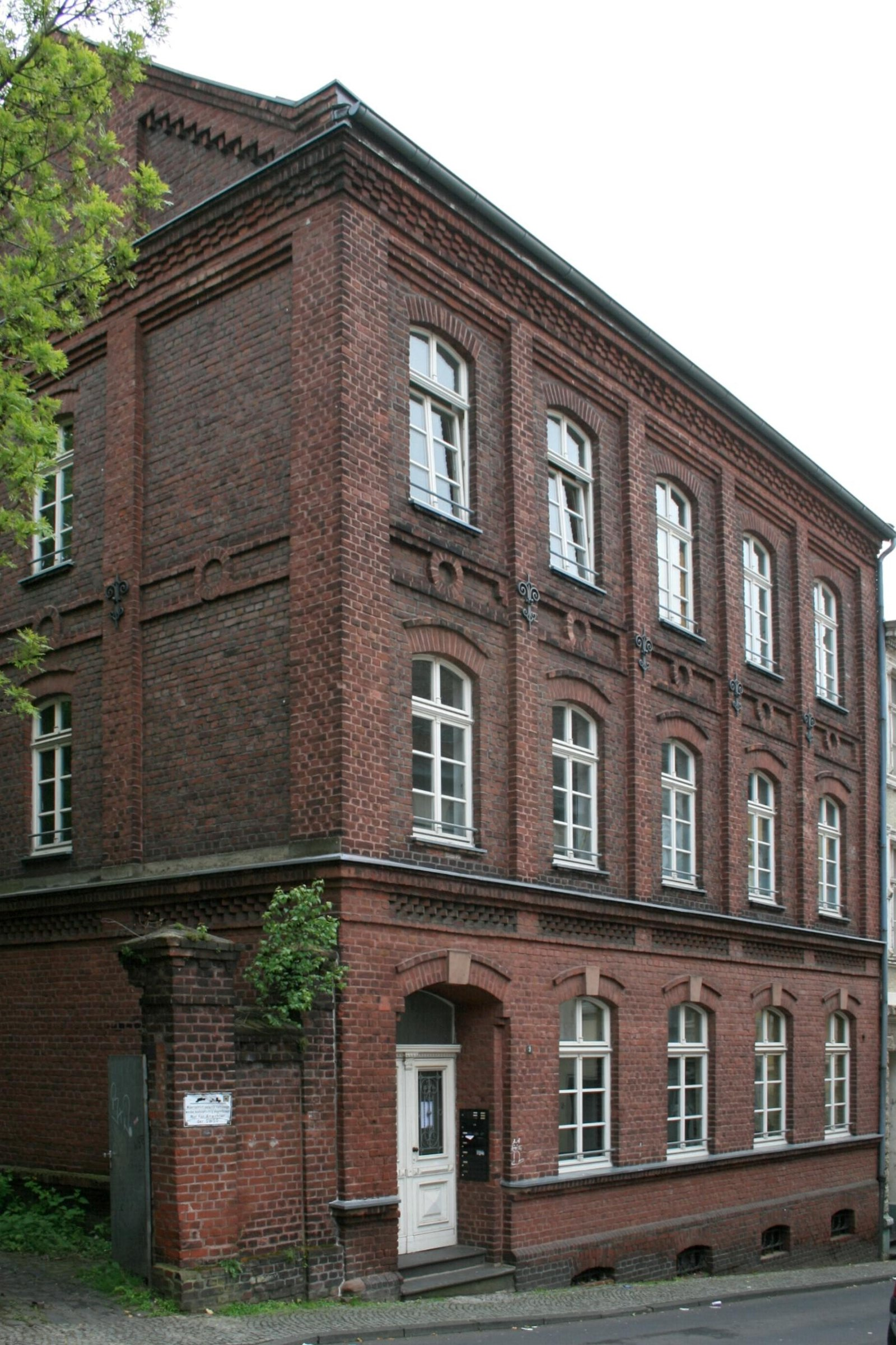 Cultural heritage monument No. L 032 in Mönchengladbach